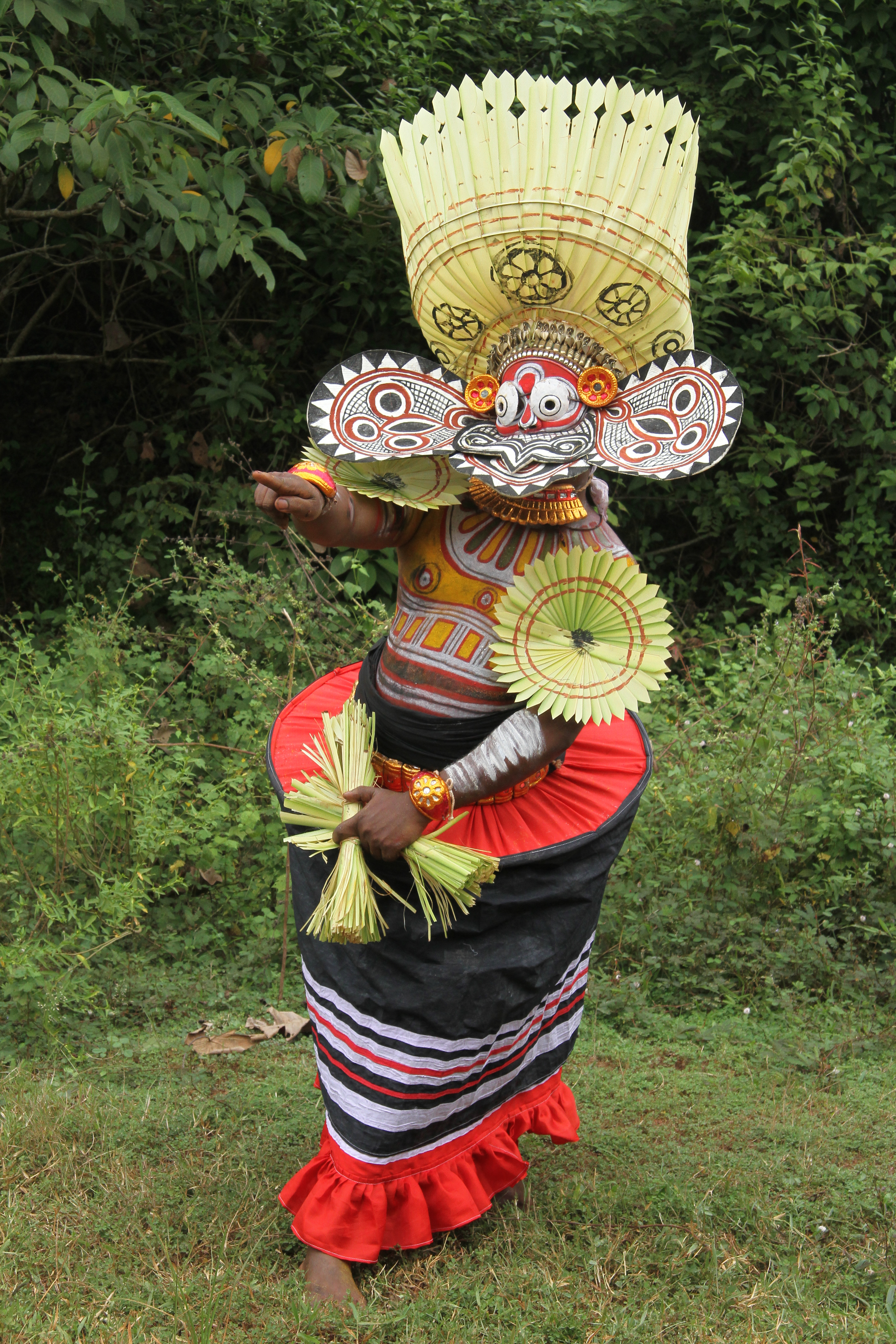 Thirayattam- Mother of Ethnic Dances Thirayattam is an Ethnic Performance held on Sacred groves and ancestral families/ village Shrine of south Malabar region in Kerala,India. which is colourful and faster in movement . This vibrant art form has great resemblance to the traditions and customs of ancient civilization. Thirayattam is an unique Ritual performance.It is an admixture of of Artistic performance ,dance, drama, songs, musical performance along with facial Make-up, bodily make-up martial art & Rituals. Thirayattam is the reflection of antique life with spectacular Performance , customs and Rituals. It is believed to have the tradition of one millennia. Season of this annual fesitival is between december and may " Kaavu" (sacred groves) is an isolated vegetation for Divine purpose . Such "Kaavus" and ancestral families set the stage for Thirayattam.Thirayattam is a Power full Environmental theatre that suggests the belief system , customary activities, pleasure ,Pains And survival mechanism of The ethnic community